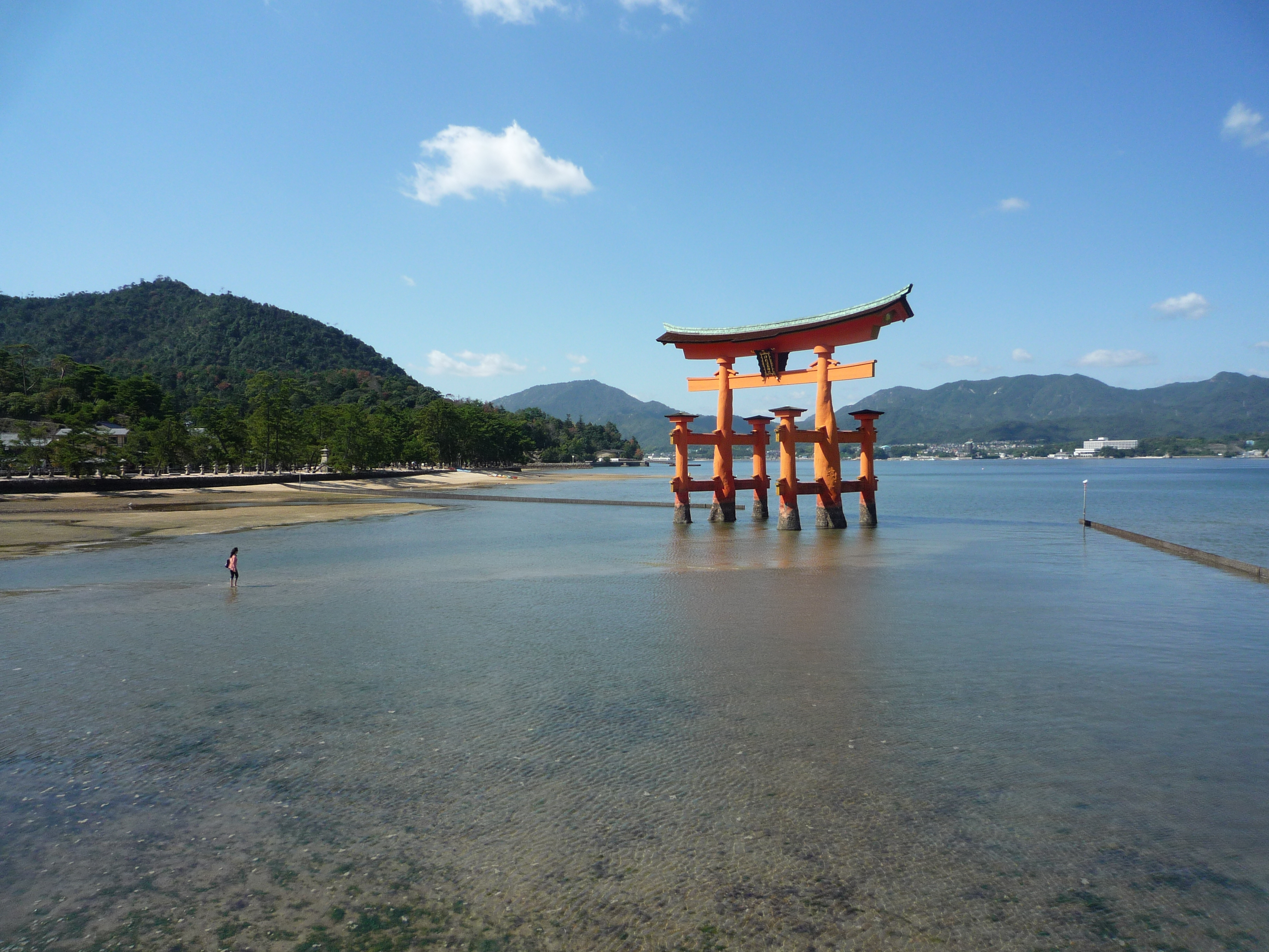 This is one of my alltime favourites. One tiny figure, blowing up the structure she is wading towards, the port of the Itsukushima shrine, to gigantic proportions.